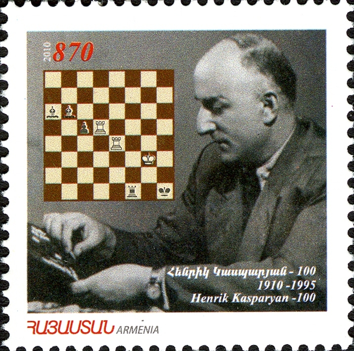 Postal stamp "Birth Centenary of Henrik Kasparyan", issued in Armenia on 2010-02-27. Portrayed are Kasparyan and his study from L'Italia Scacchisticca 1984, 4th prize (first published in L'Italia Scacchisticca of February 1984). The study is incorrect because of the additional solution 1.Re7, as found by Mario Guido Garcia on 2007-05-19. However, the information about the incorrectness was published in October 2010 and was not publically known when the stamp was issued. Intended solution: 1.Re6 Bc7+ 2.Kh4 Bc4 3.Rxc5 Bd8+ 4.Kg3 Rg1+ 5.Kf3 Rf1+ 6.Kg3 Bxe6 7.Rh5+ Kg1 8.Rh1+ Kxh1 stalemate.